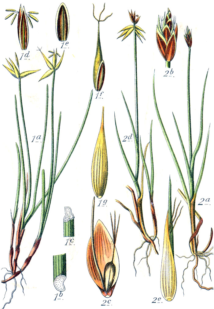 1. Carex pauciflora Lightf., 2. Carex microglochin Wahlenb. Original Caption 1. Armblütige Segge, Carex pauciflora 2. Häkchen-Segge, C. microglochin